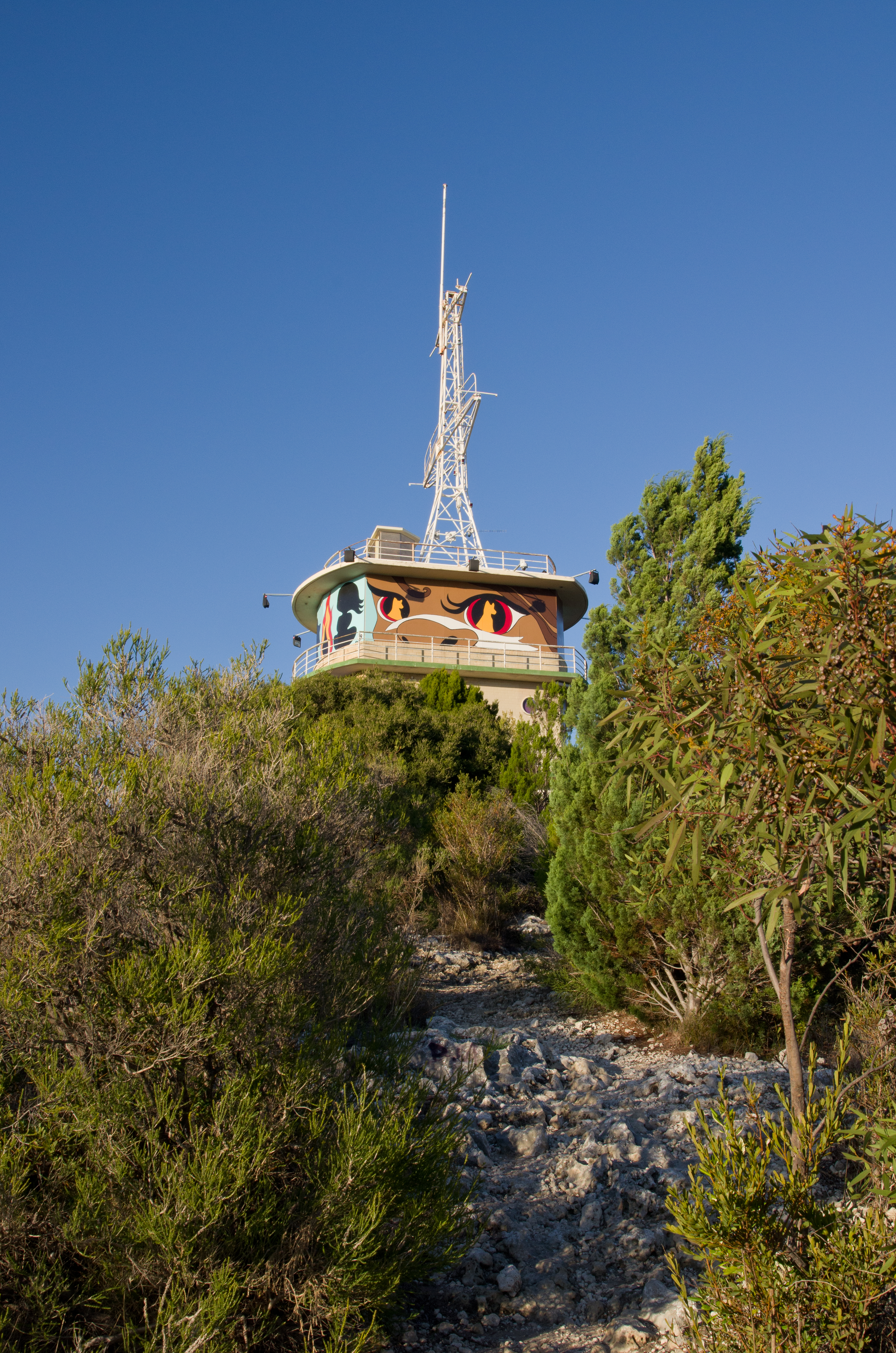 bushland and signal station